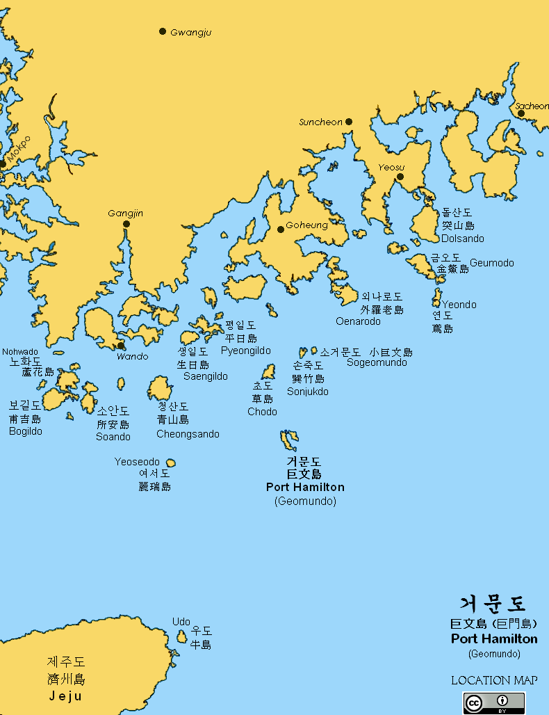 Location map of Port Hamilton (Komundo/Geomundo), Korea, in the Jeju Strait